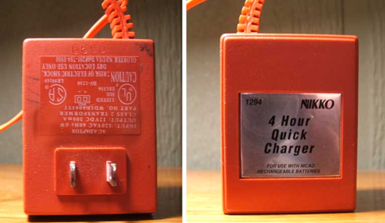 Nikko battery charger Photographer: Tobey Phillips